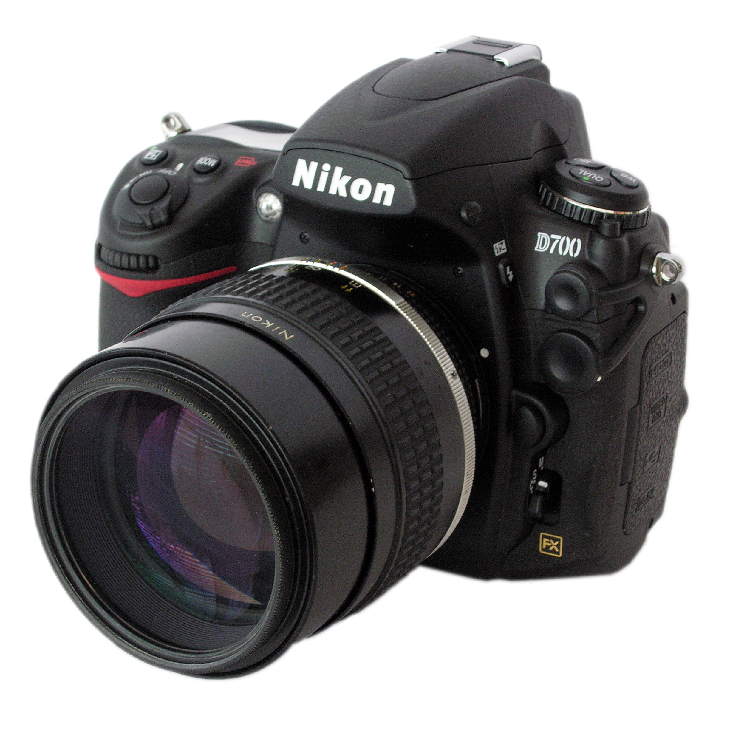 Nikon D700 with non-autofocus lens Nikkor 105 mm f/1.8 AI-S